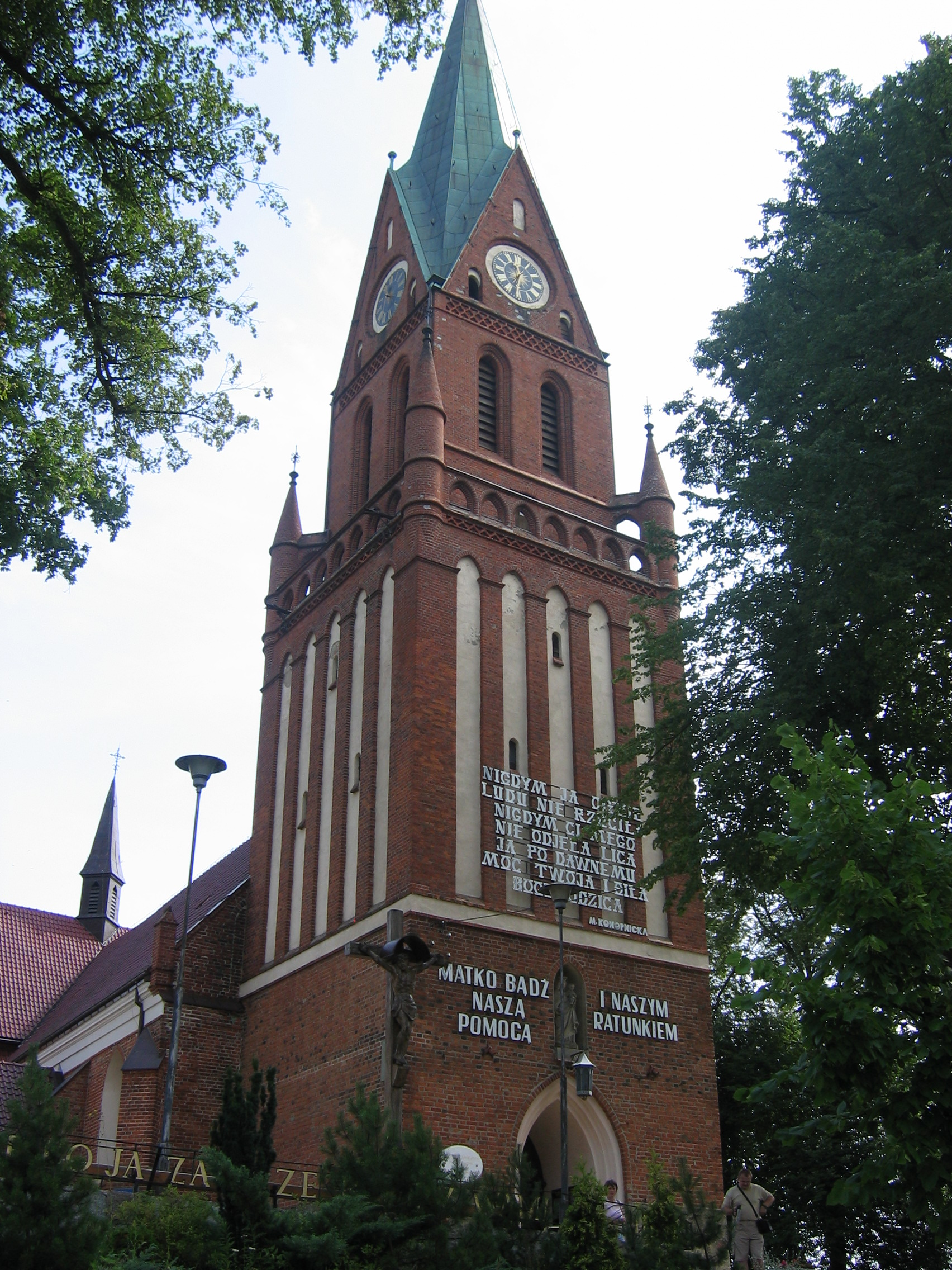 Church in Gietrzwałd, Poland